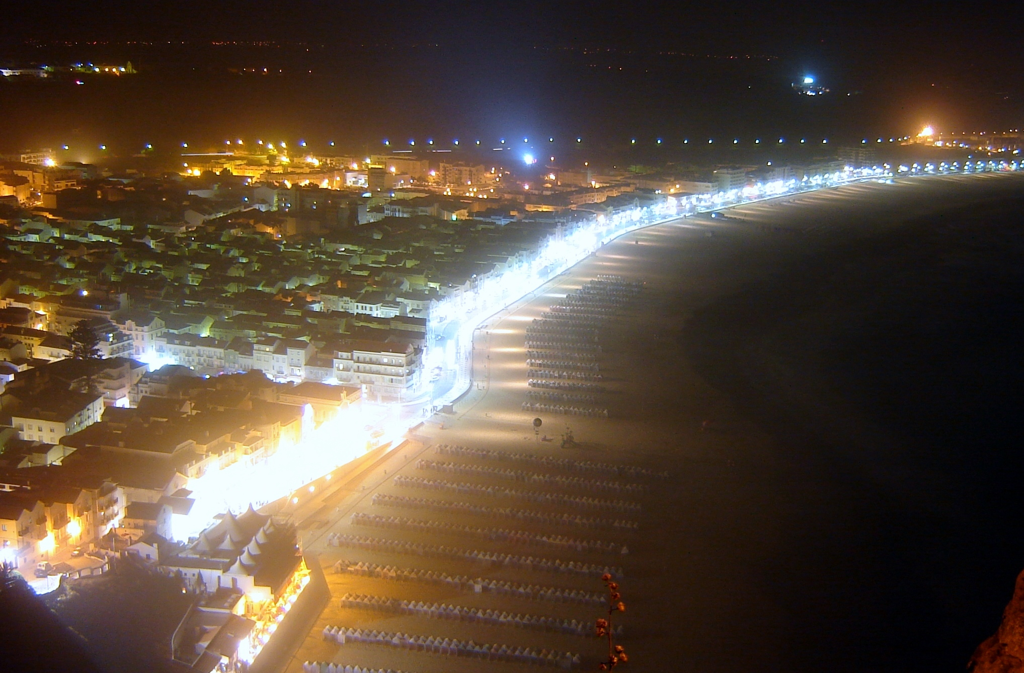 Nazareth by night, Portugal